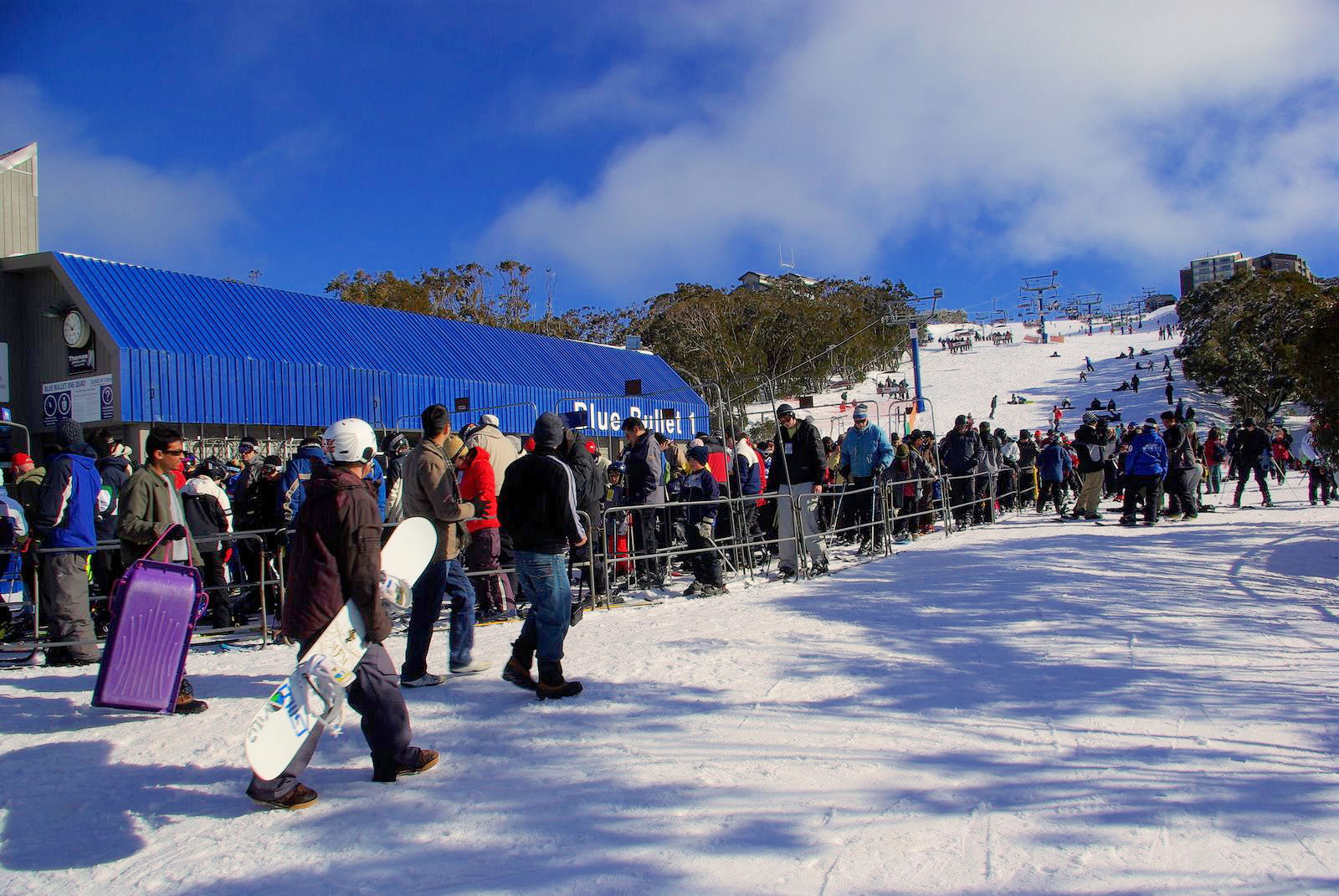 The Blue Bullet 1 chair lift at the bottom of Bourke St, at Mount Buller.